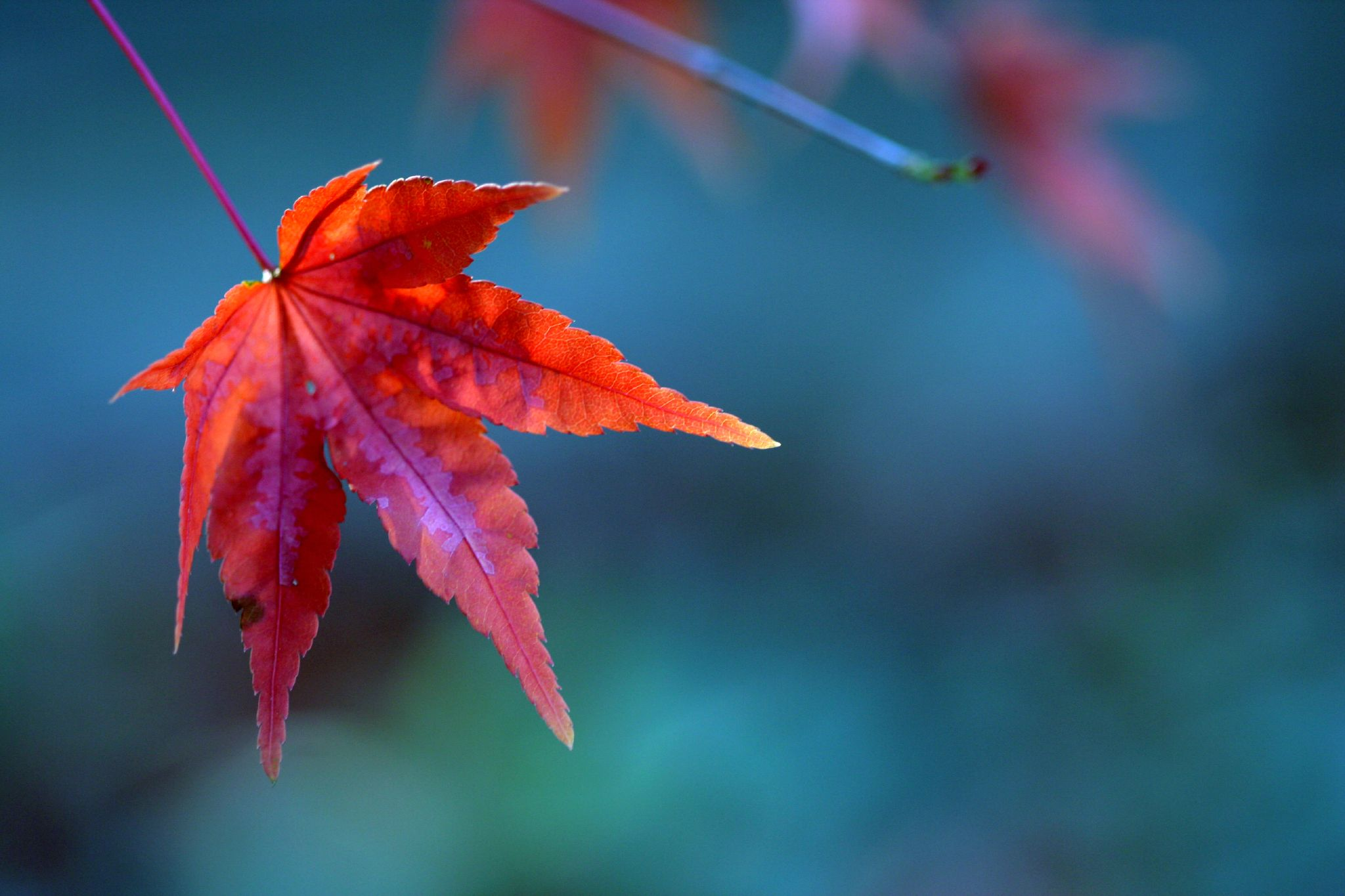 Photo of a red maple leaf.